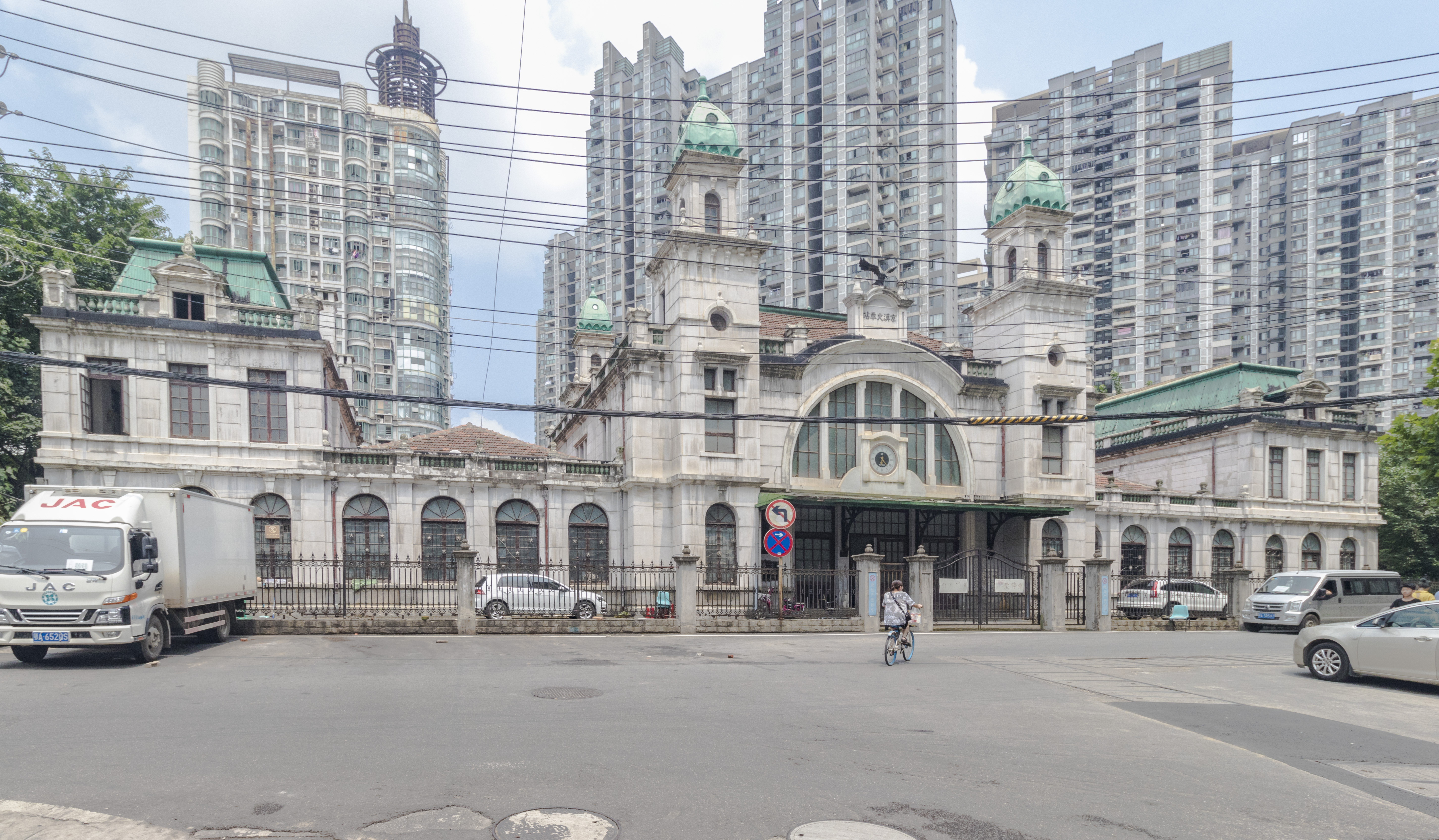 1222 Jinghan Avenue, Jiang'an District, Wuhan